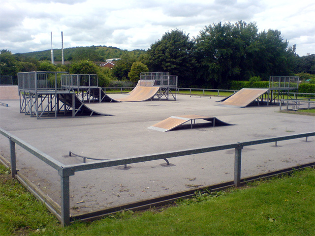 Deserted skate park If the saying "skate or die" is anything to go by then it's just as well this is sited close to the graveyard!